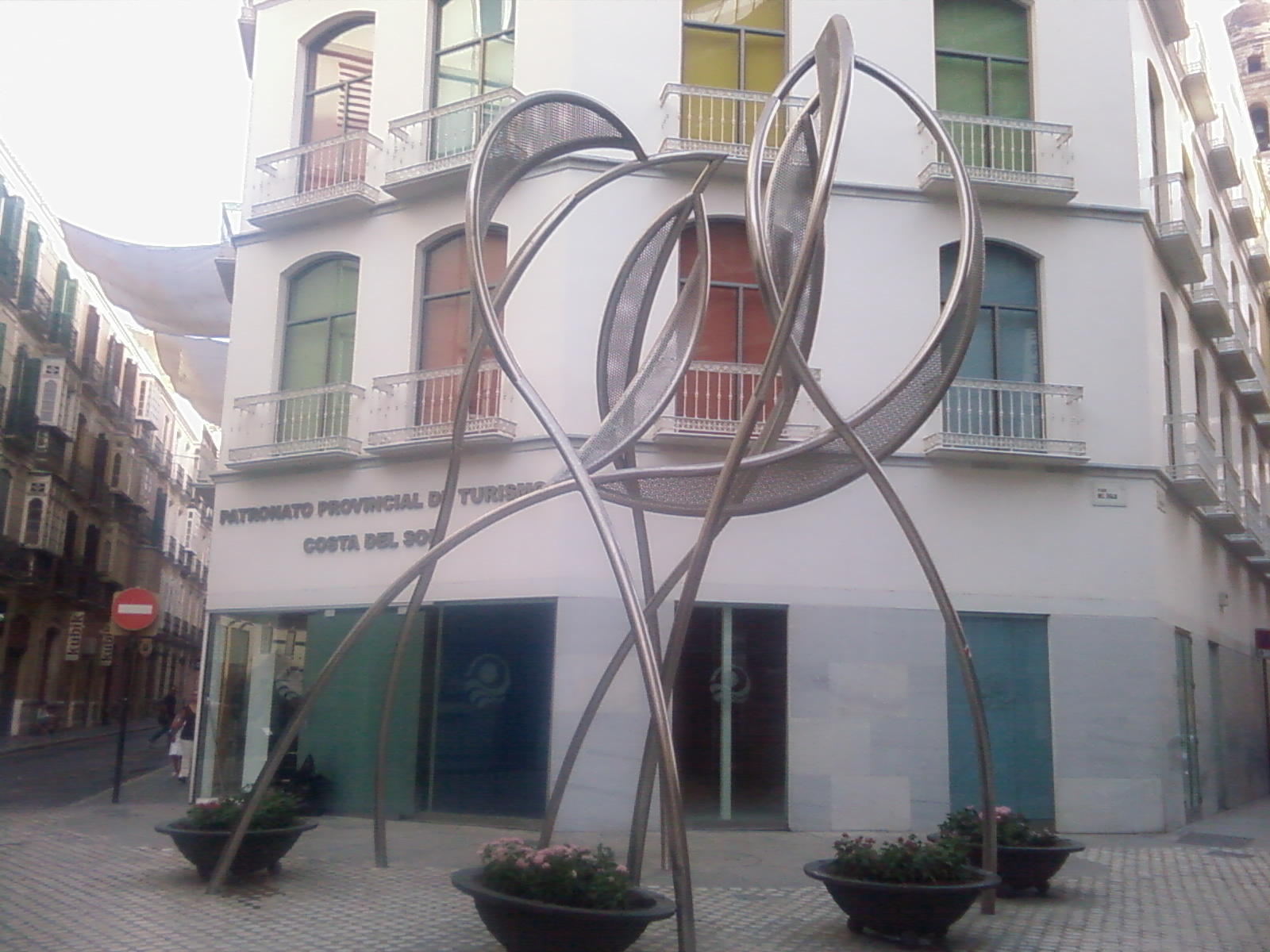 sculpture "Panta rei" (2008) by Blanca Muñoz in Málaga, Spain